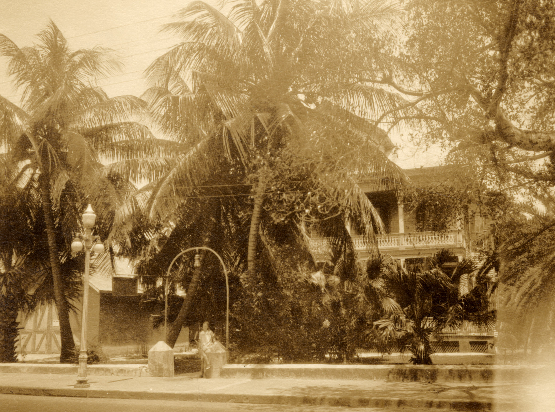 Fogarty House, corner Duval Street and Caroline Street. The Heritage House Collection, donated by the Campbell, Poirier and Pound families. The Heritage House Collection, donated by the Campbell, Poirier and Pound families, is a collection of photographs taken or collected during the 1930s by the WPA workers in Key West.